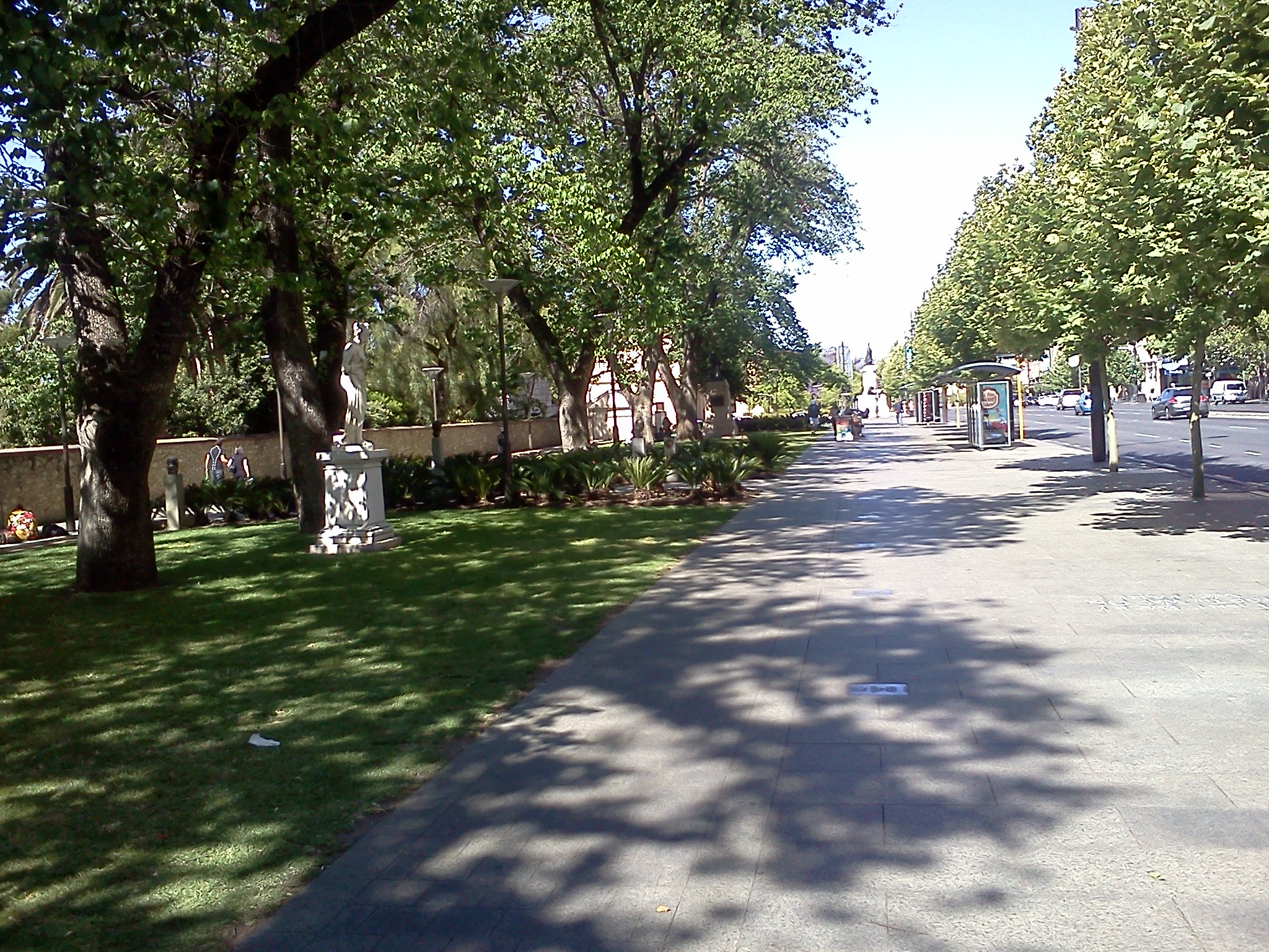 Jubilee 150 Walkway looking east from vicinity of the statue of Dame Roma Mitchell. Taken November 2013 after the completion of the remodelling of North Terrace